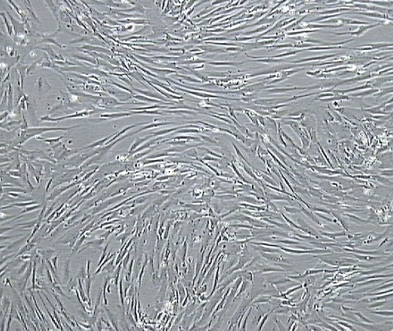 primary human aortic smooth muscle cells, fourth passage.